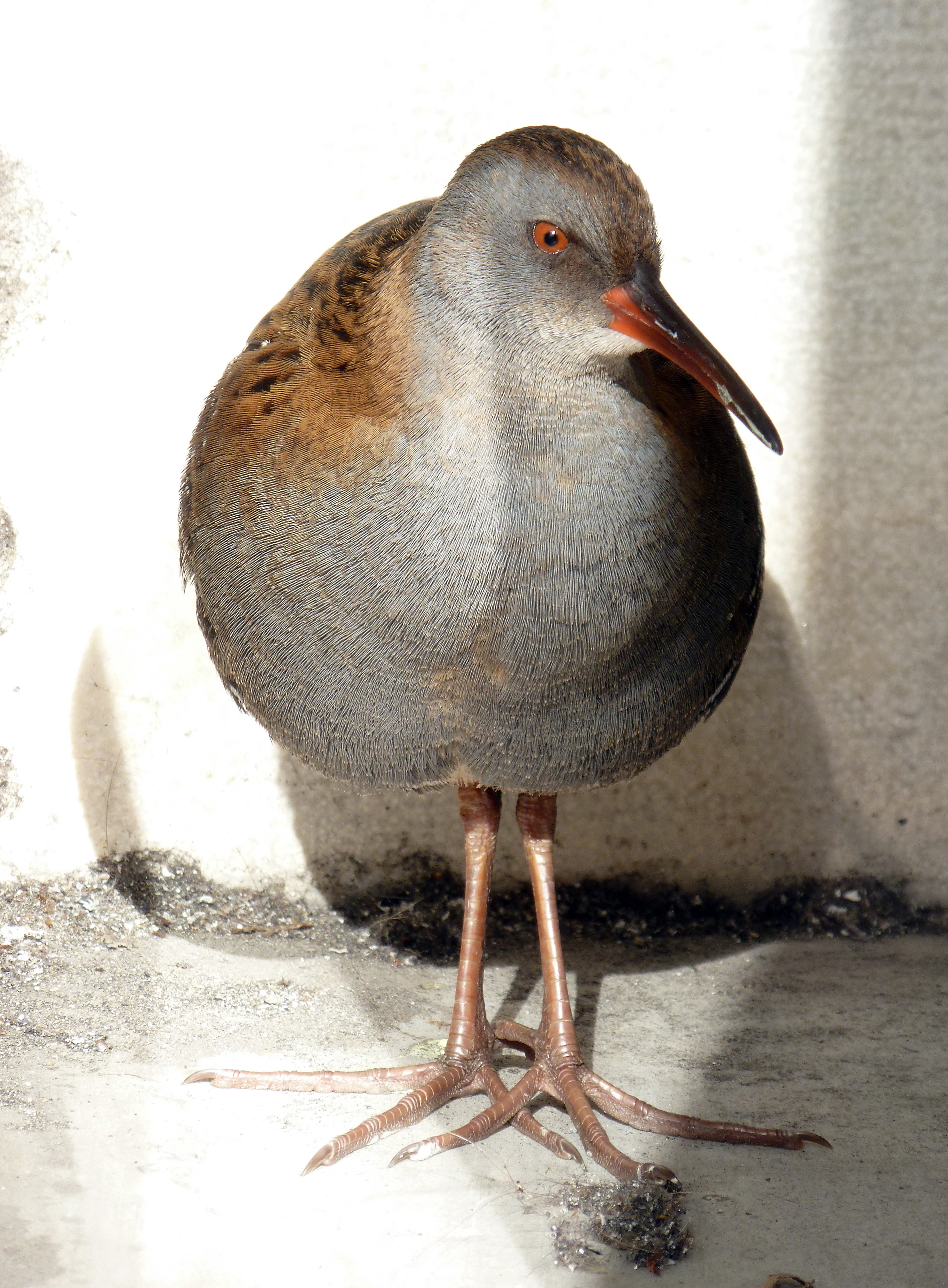 A Water Rail around Genoa, Italy